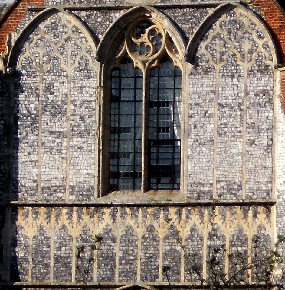 Detail of flint flushwork tracery on the south front of Butley Priory Gatehouse